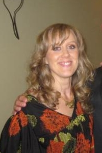 Comedian Claire Hooper posing for a photograph while "backstage" on the Australian satirical game show Good News Week.